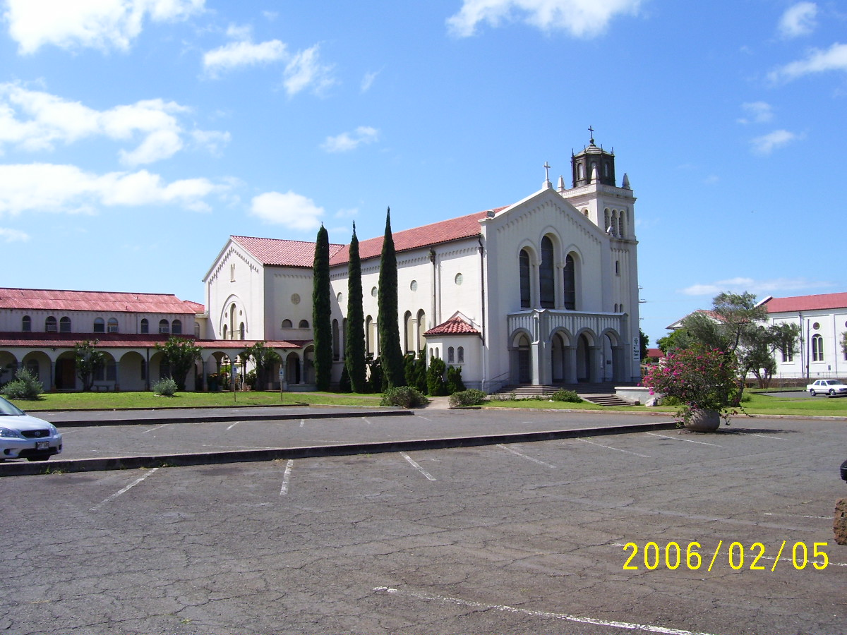 Photograph taken by Aloysius Patacsil of Saint Patrick Roman Catholic Church, Honolulu, Hawaii